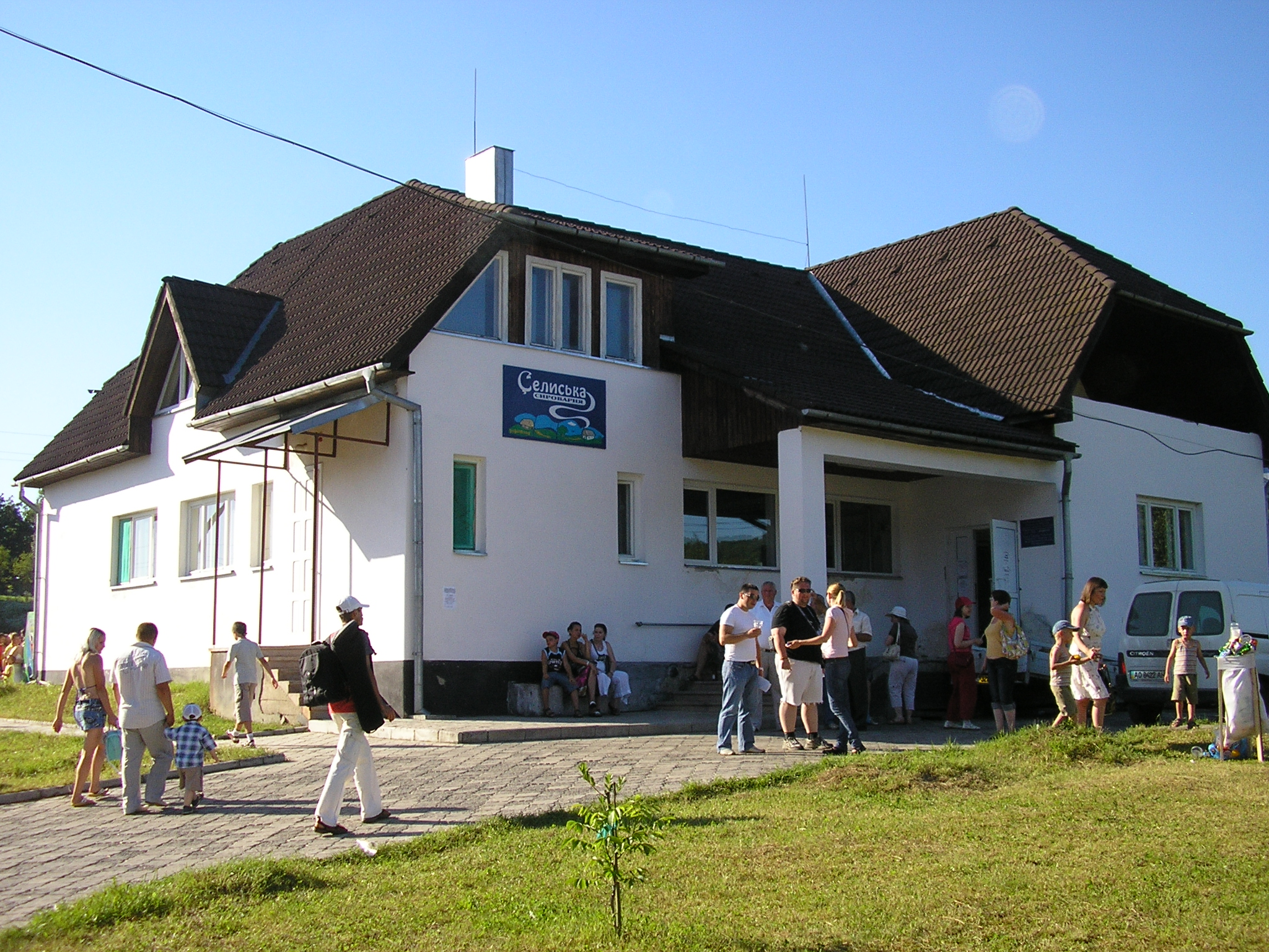 Nyzhne Selishe